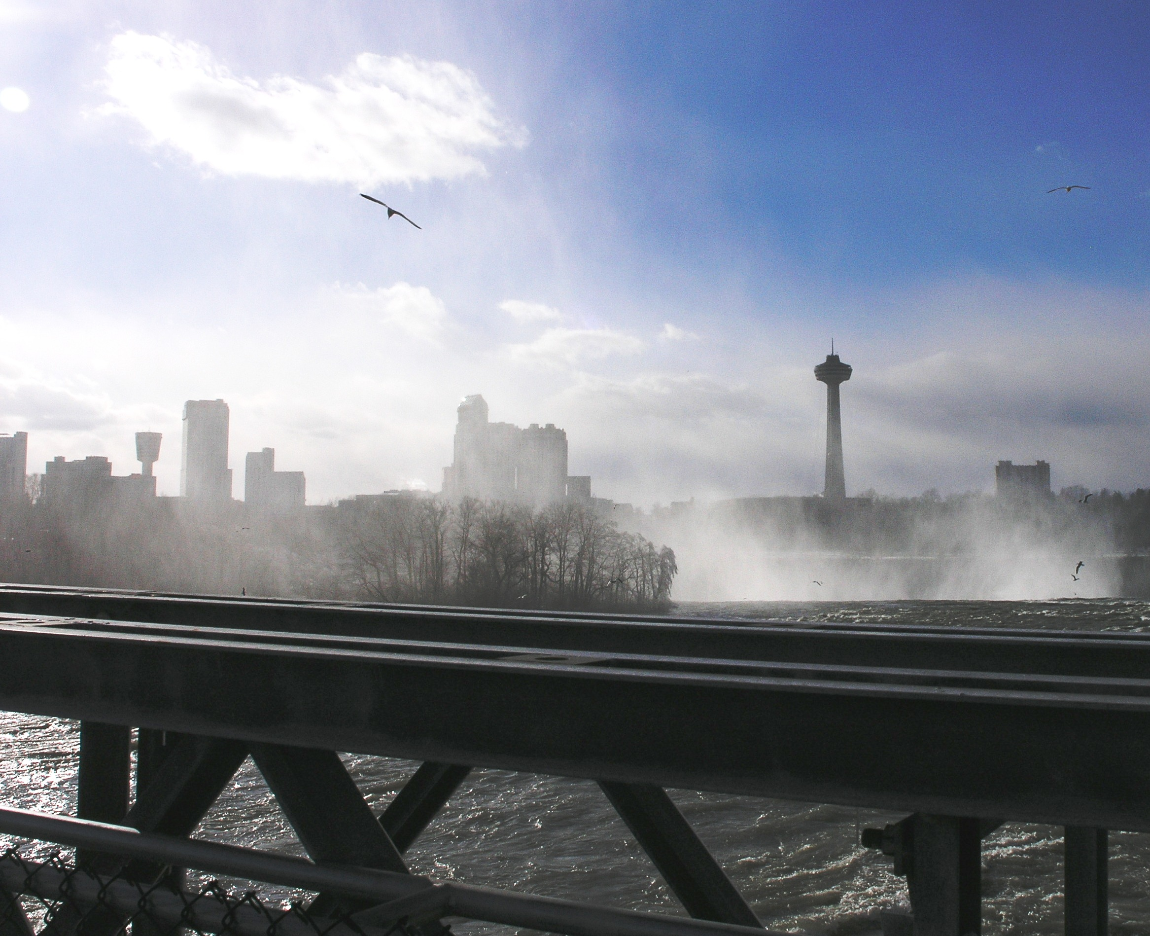 Taken by Daniel Mayer in late February 2006.